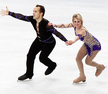 Caydee Denney and Jeremy Barrett at the 2010 Winter Olympics.